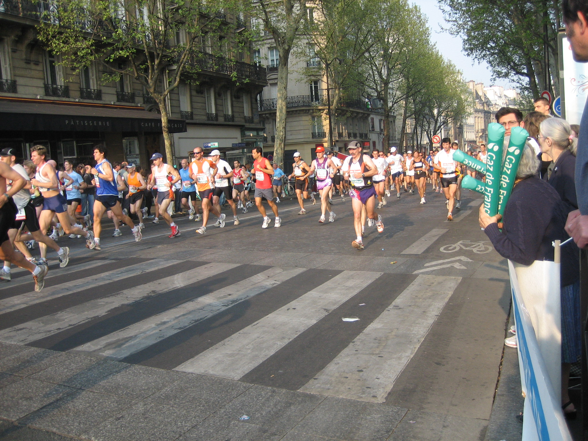 Paris Marathon in Paris, Ile-de-France, France. Photo taken near the 3 place de la Bastille, showing the start of rue saint Antoine.